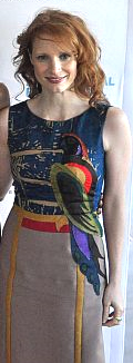 Chastain attending 18th Annual Hamptons International Film Festival Chairman's Reception on October 9, 2010 at the home of Stuart Suna in East Hampton, New York. (Photo © Nick Stepowyj)